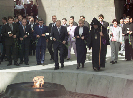 YEREVAN. President Vladimir Putin laying a wreath at the Armenian Genocide Memorial.